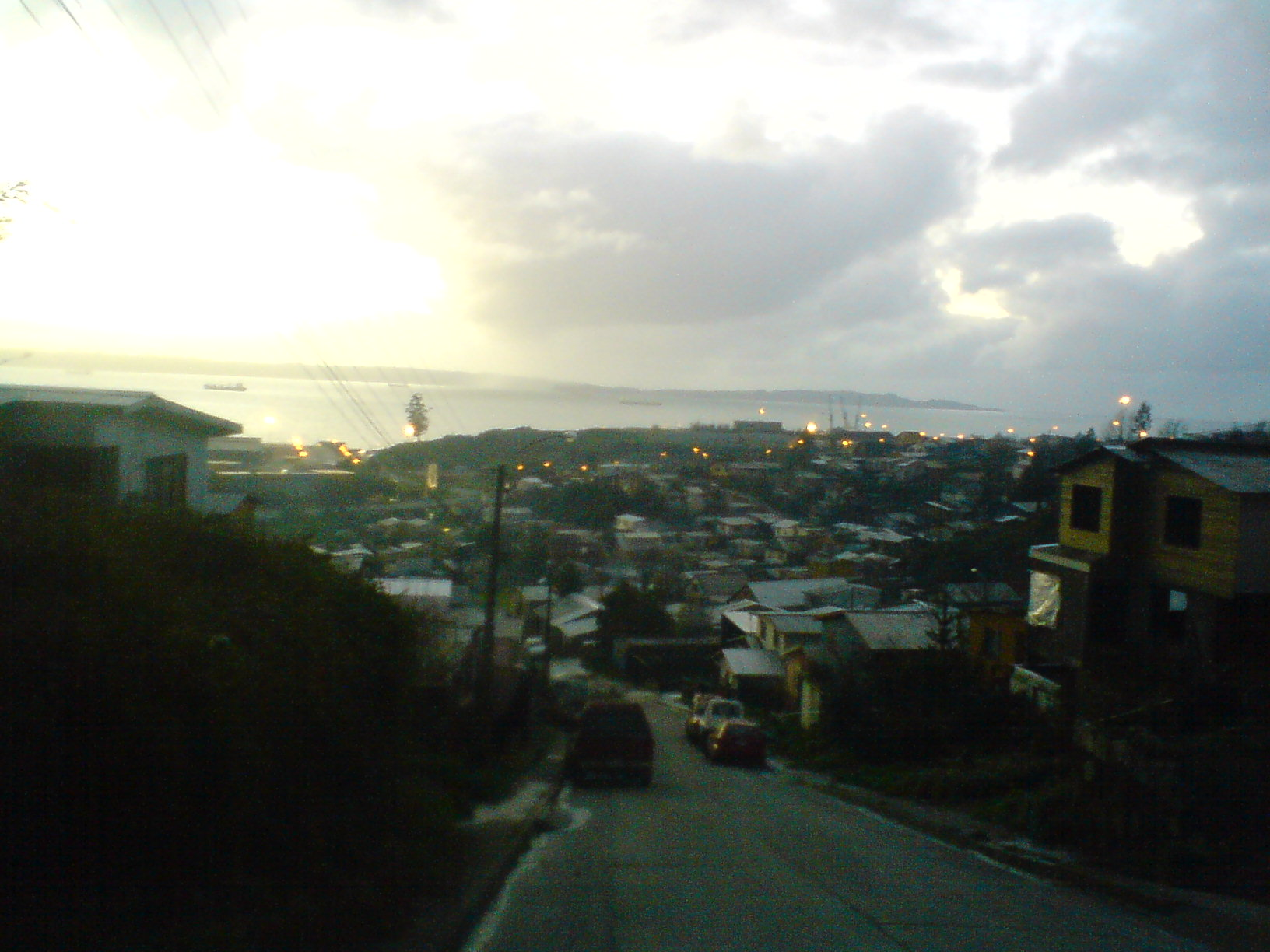 beach